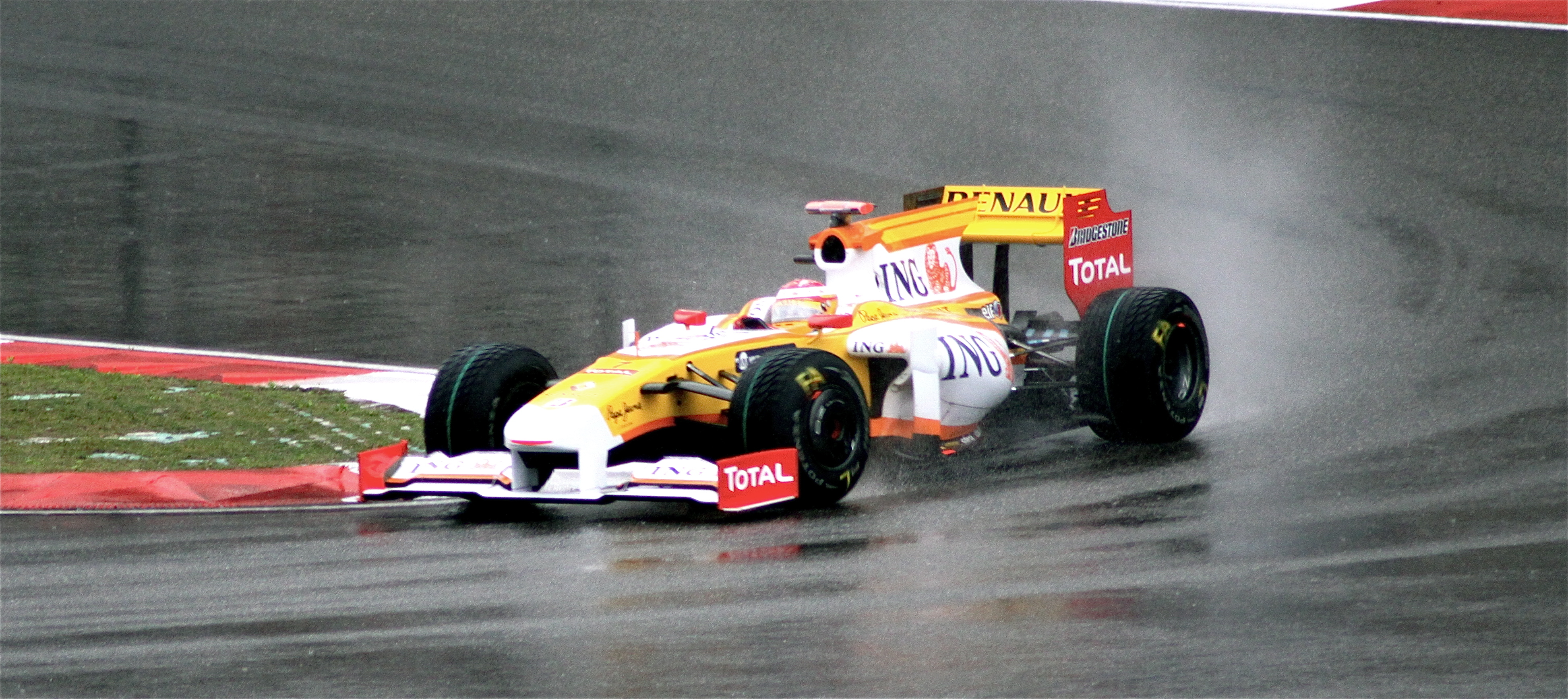 Fernando Alonso (Renault), 2009 Chinese Grand Prix